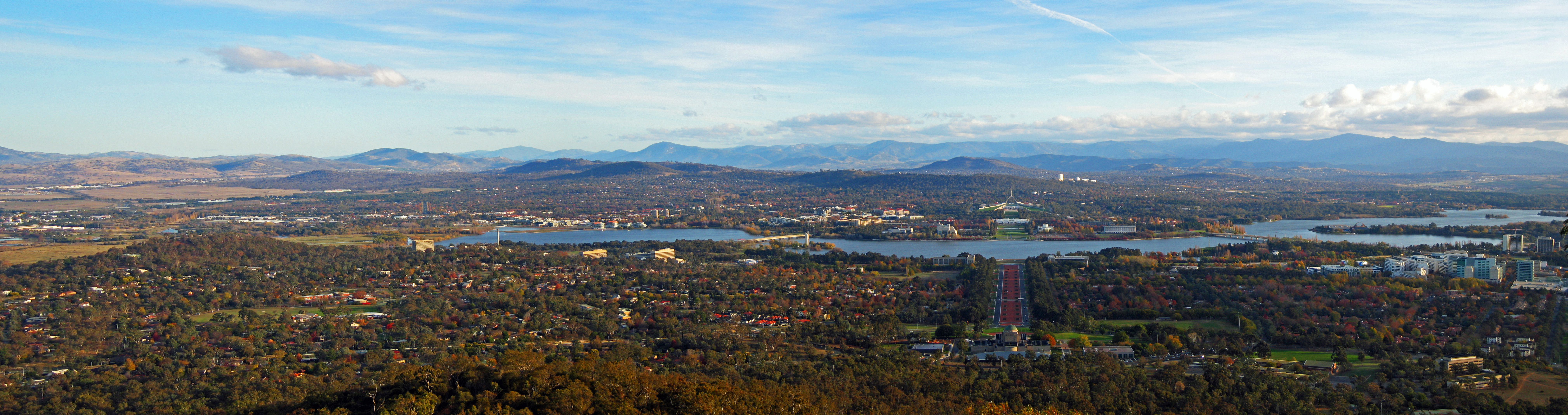 Canberra from Mount Ainslie